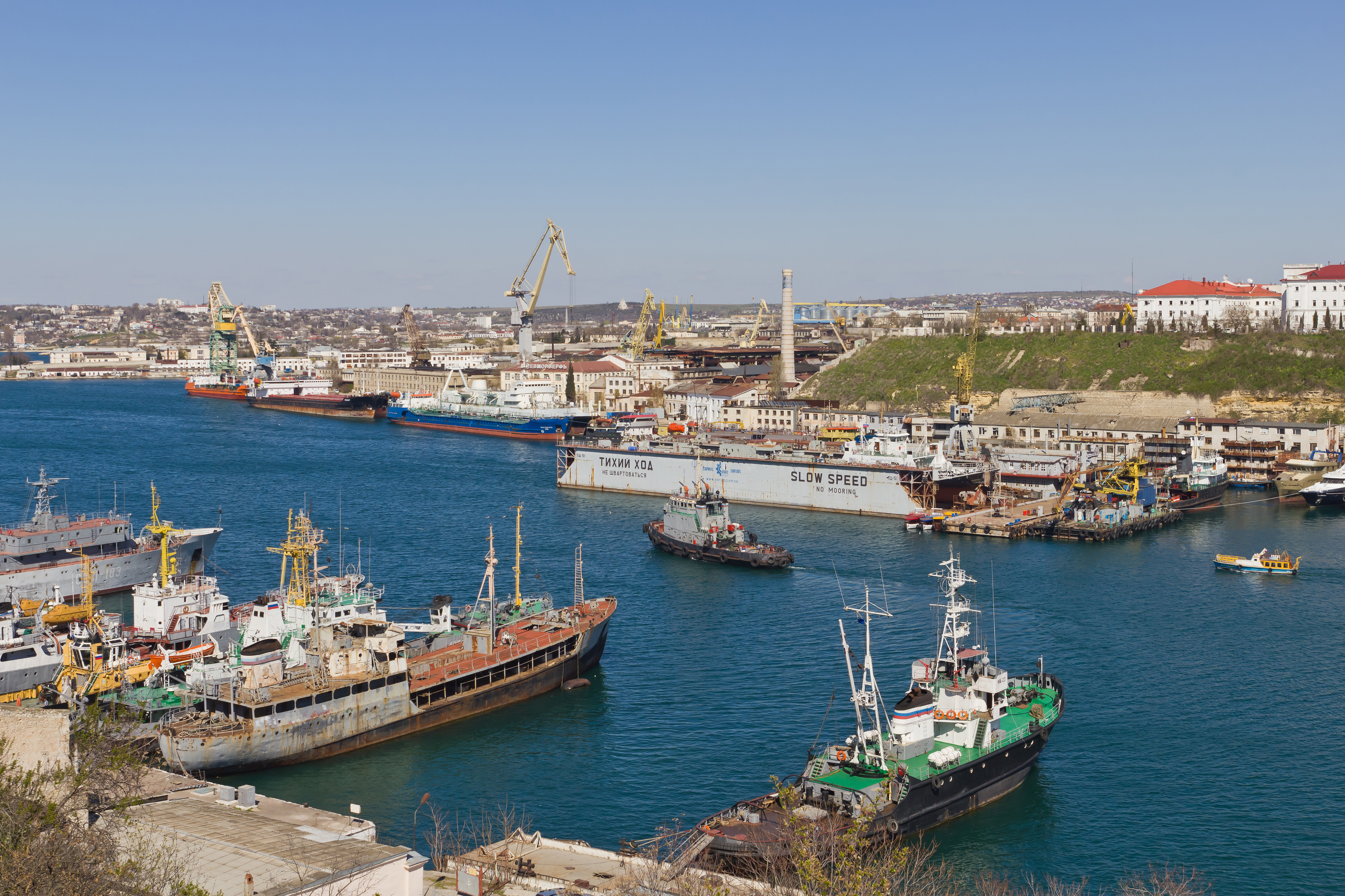 View towards the Southern Bay in the Federal City of Sevastopol. Crimean peninsula.